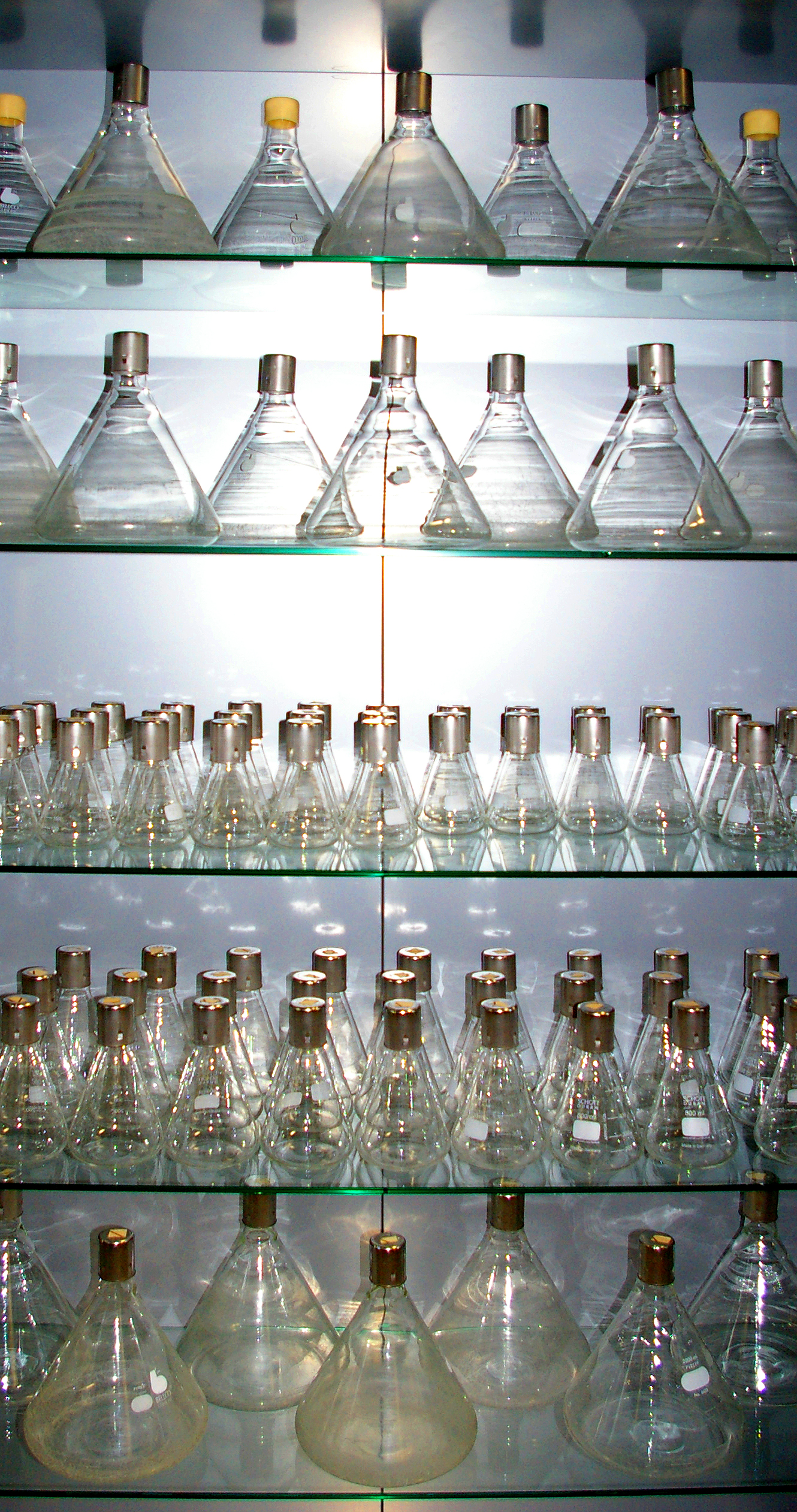 A cabinet with culture flask in MPI-CBG